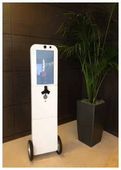 Anybots Q(x) Polycom Prototype